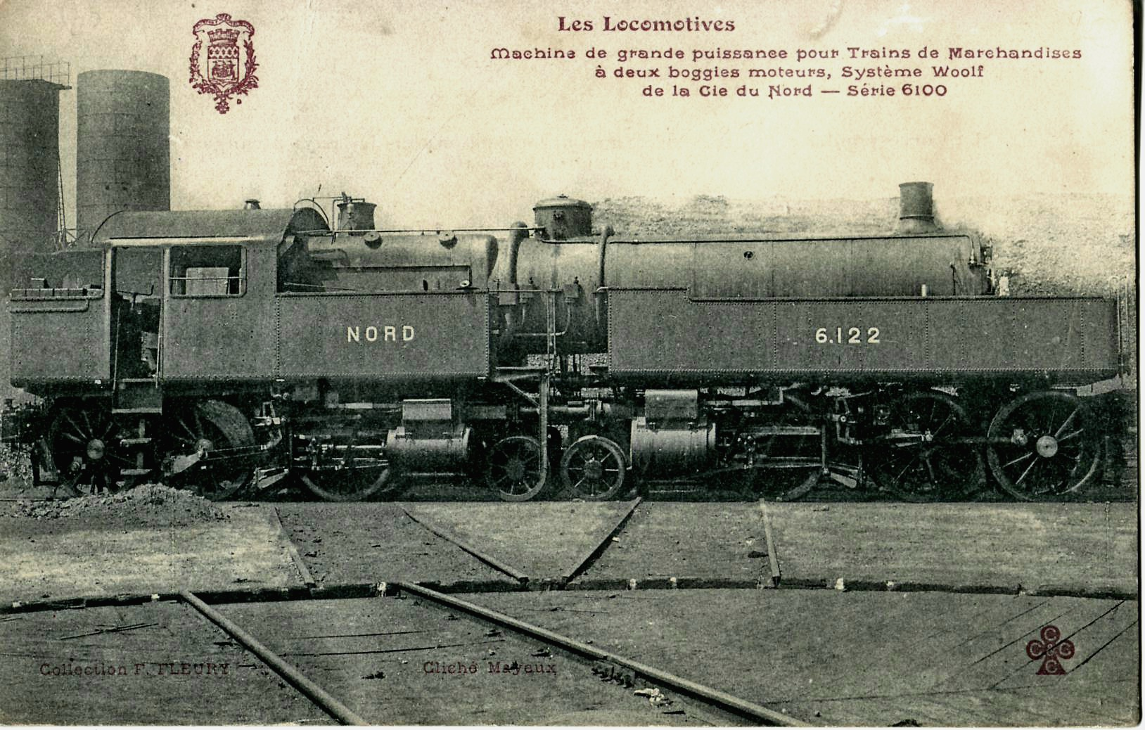 (abbreviated) Old Post Card of Busquet Steam Locomotive0-6-2+2-6-0 (or 031+310 in French classification